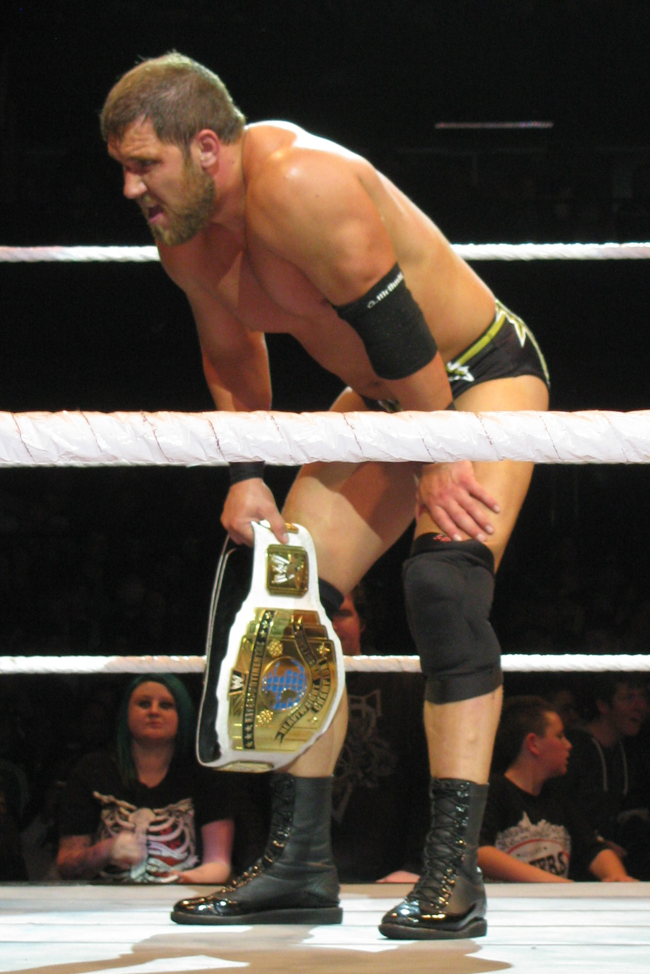 Curtis Axel @ Adelaide, South Australia WWE house show on the 29th of July '13